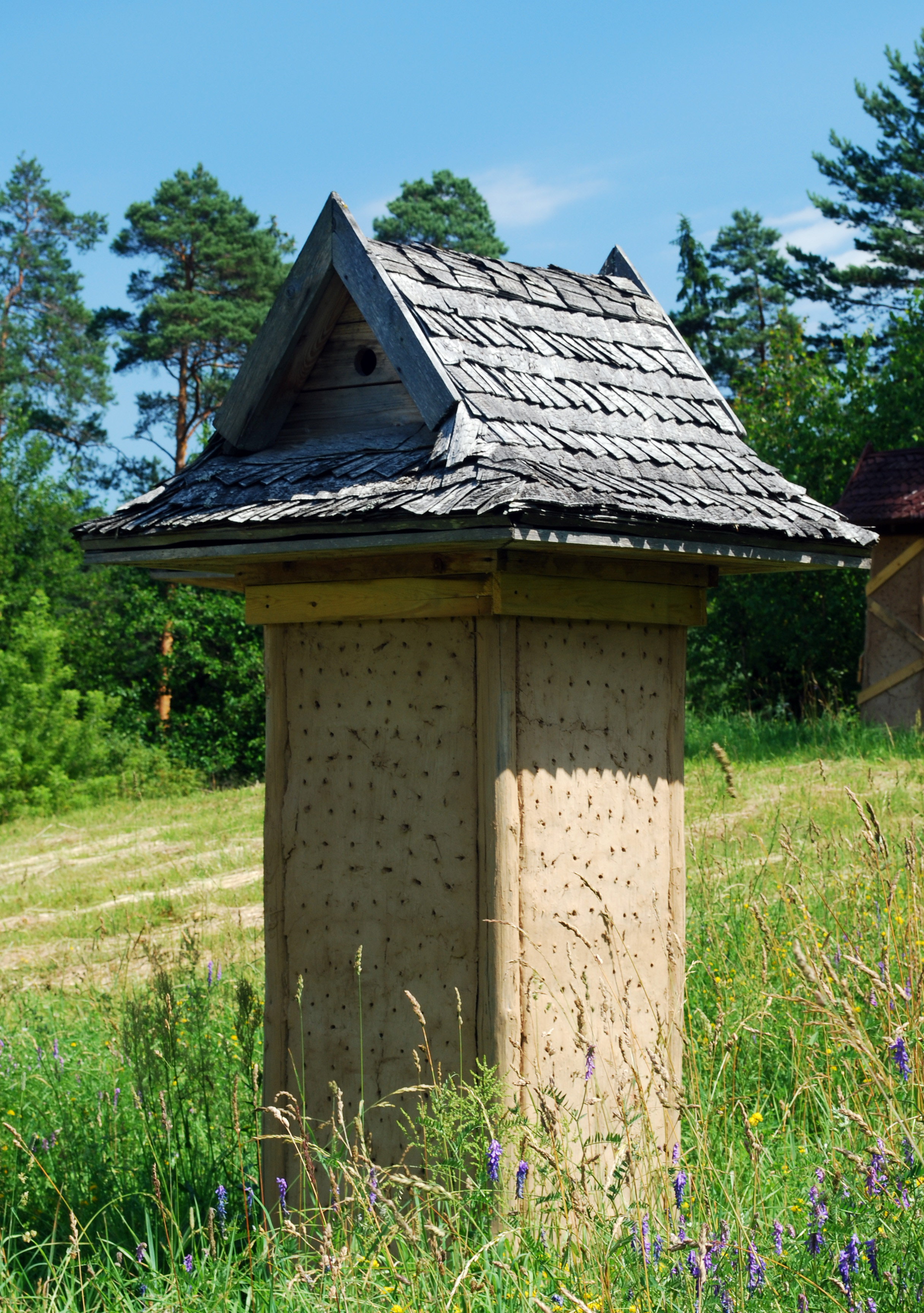 This photo from Podlaskie Voievodeship was taken during Polish Wikiexpedition 2009 set up by Wikimedia Polska Association. The making of this document was supported by Wikimedia Polska. Ul w Krzywym, województwo podlaskie.